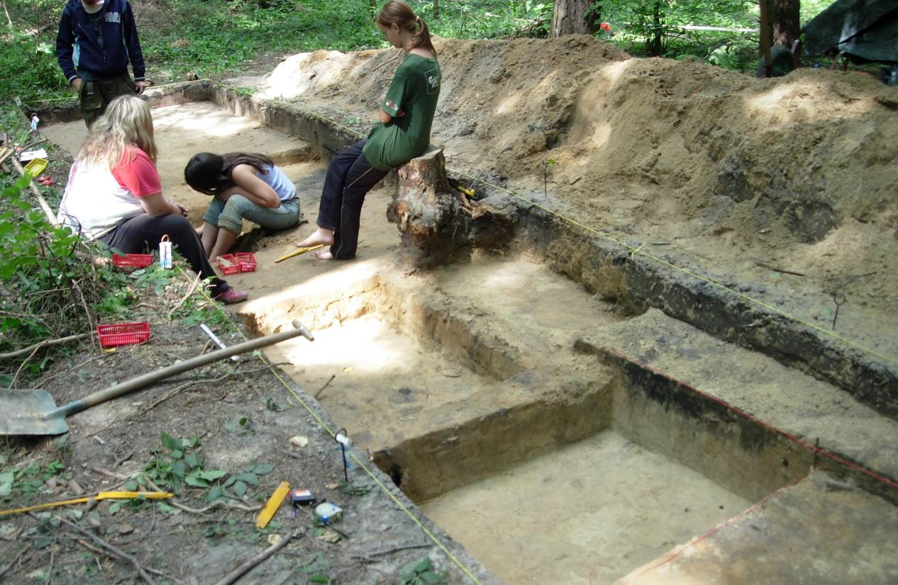 Archaeological excavation in Ulów